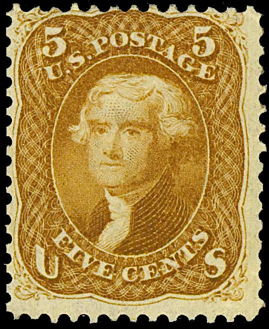 U.S. Postage stamp: Thomas_Jefferson_1861_Issue-5c.jpg